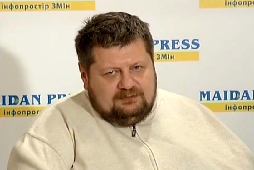 Member of Ukrainian parliament Igor Mosiychuk.